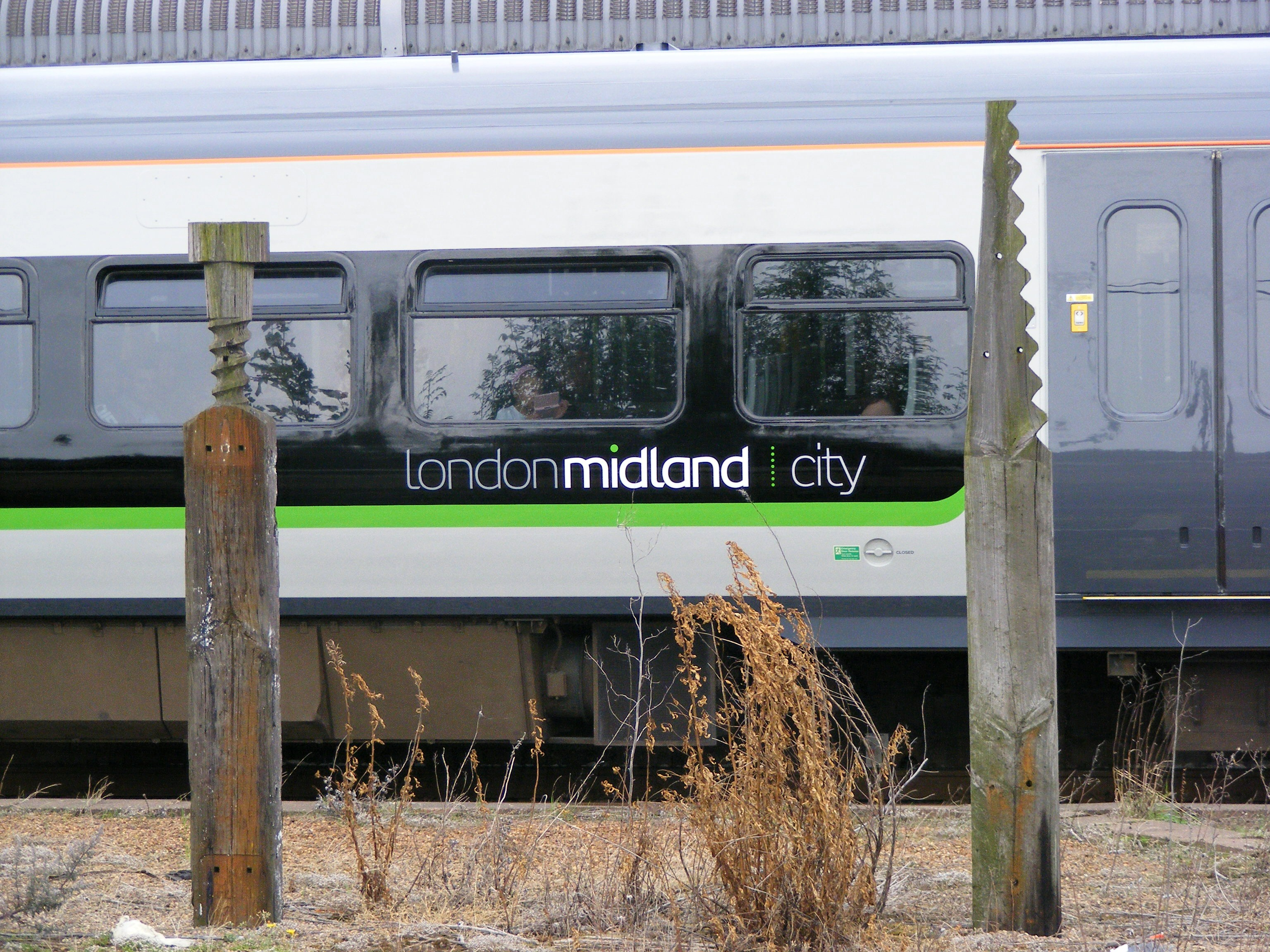 Close up of London Midland logo on Class 323 train and sculptures made of old railway sleepers at Northfield railway station